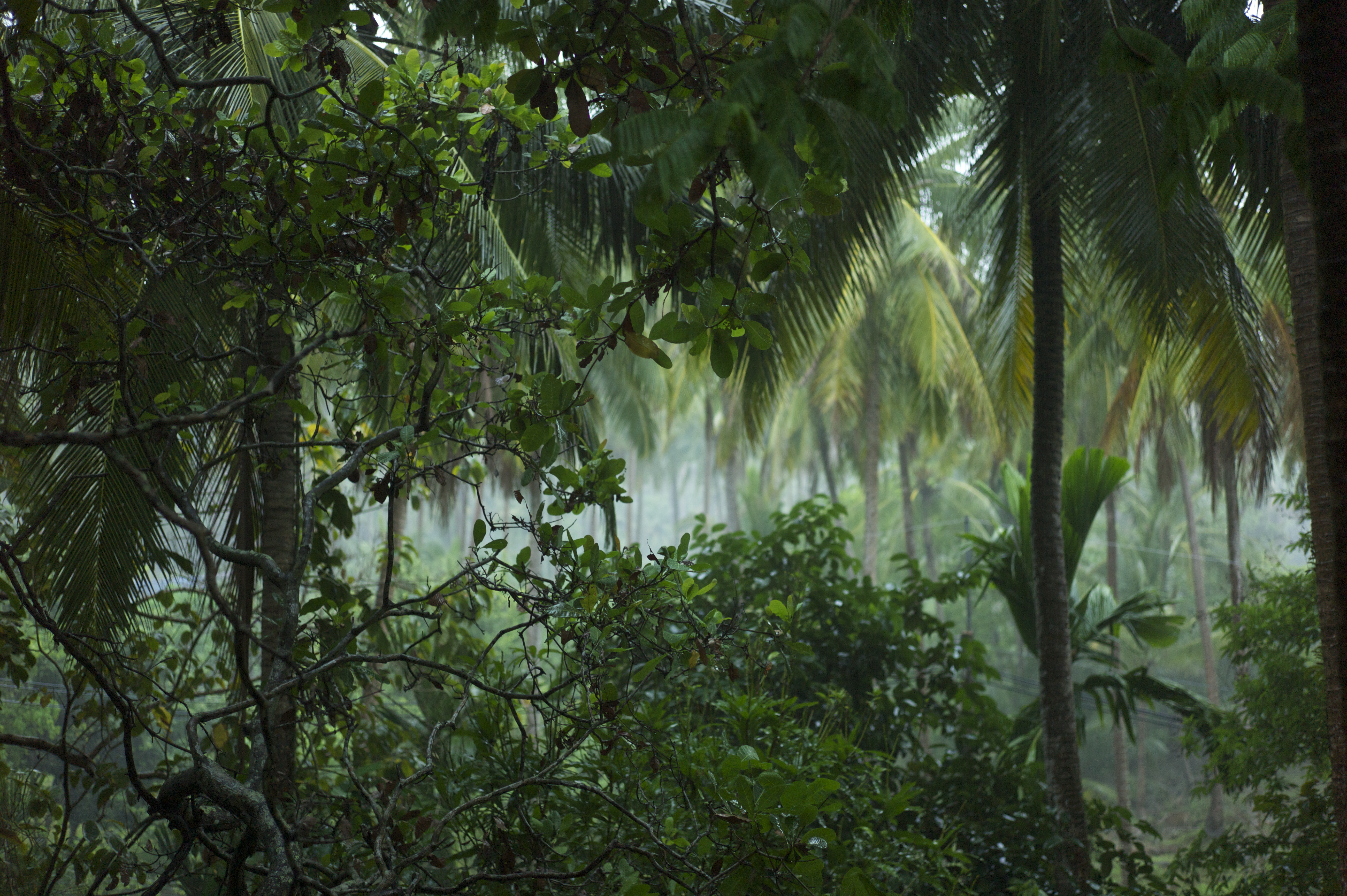 rain forest on Ko Yao Noi island